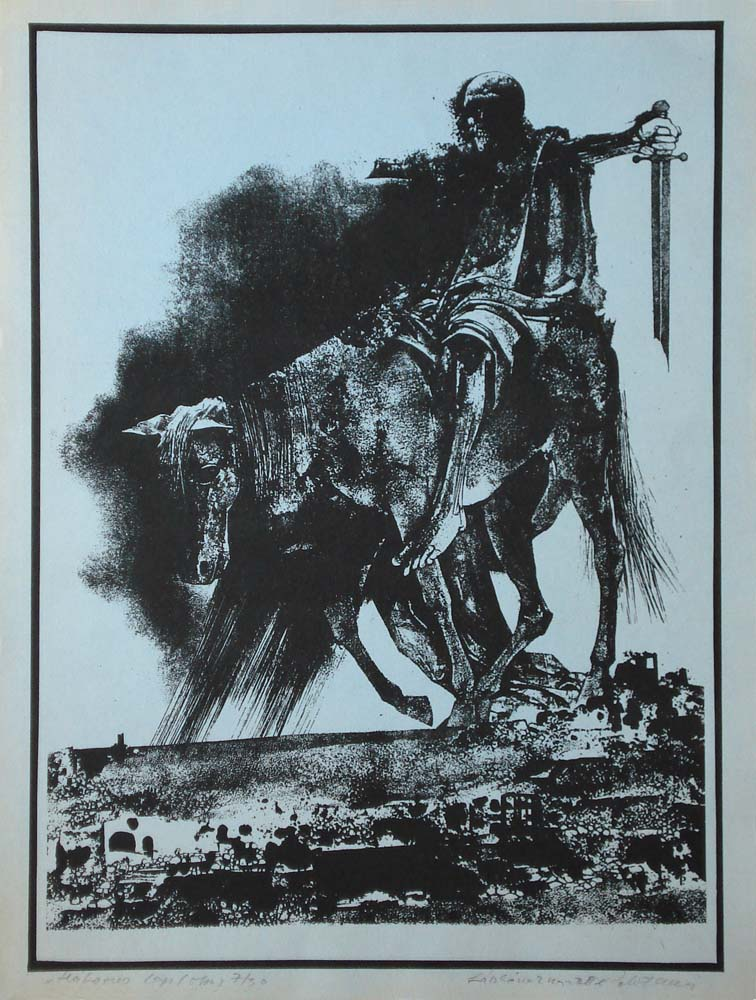 János Pető (Hungarian painter): Wartime sheet. Lithography (Own property)